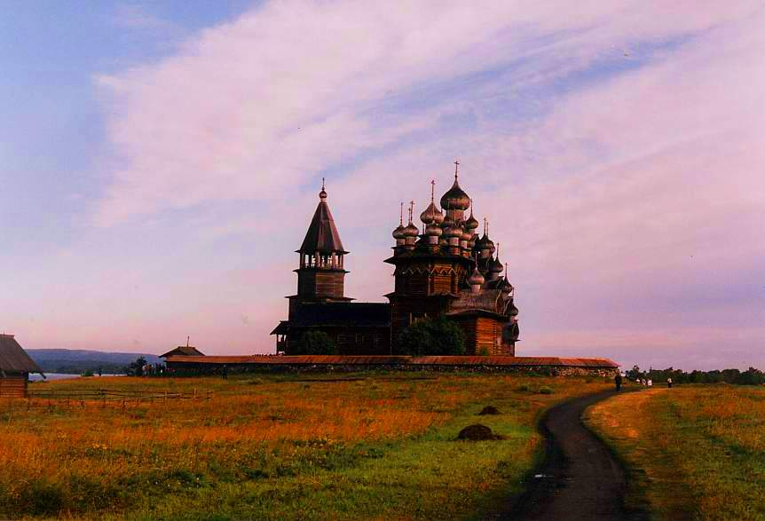 In 1714, the 22-dome Transfiguration Church (Russian: Церковь Преображения Господня) was constructed and soon after the bell tower was added, thereby completing the Kizhi Pogost.